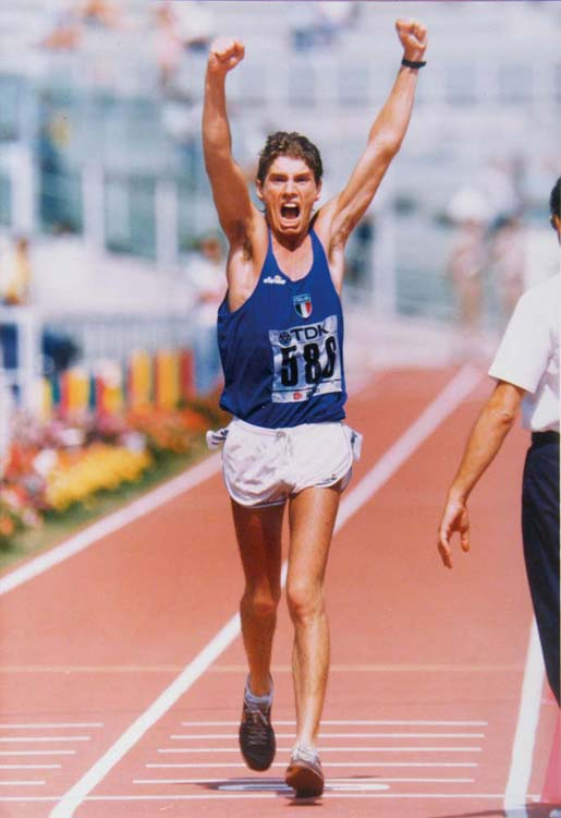 Director Raffaello Duceschi in 1987